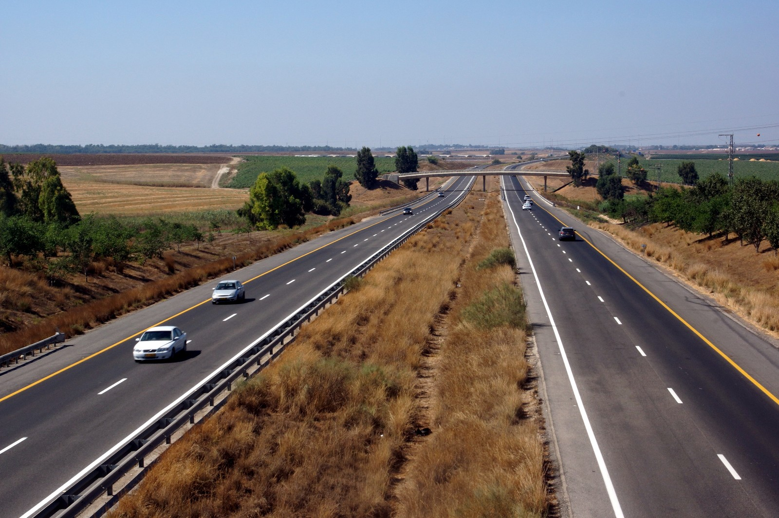 Transport in Israel